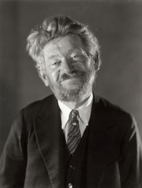 MGM Studio publicity photograph of comedian Max Davidson made in February 1927.